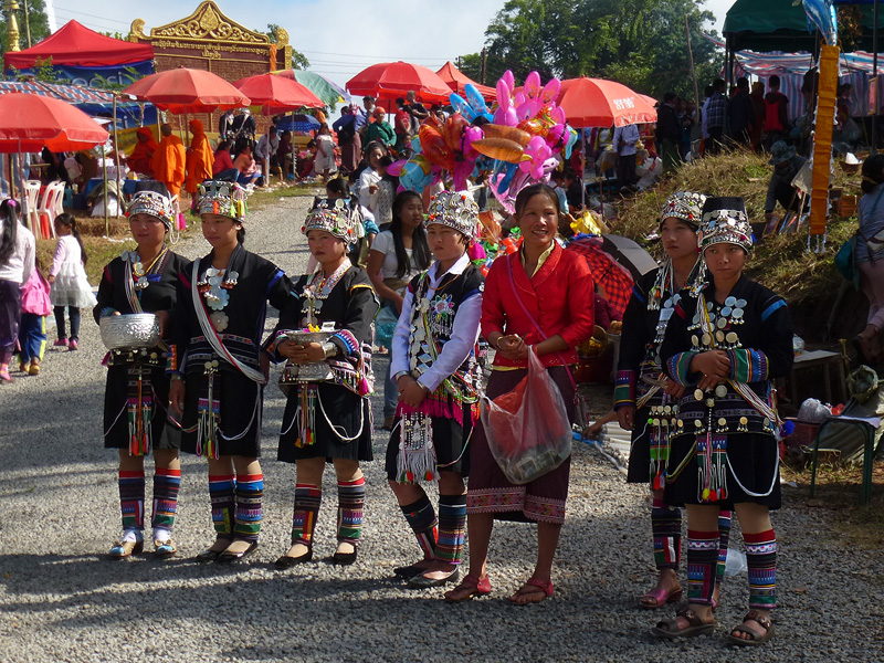 That Xieng Tung Festival, Muang Sing, Luang Namtha Province, Laos. Akha young girls in the welcoming committee. On their arrival, visitors will have a colour ribbon pinned on their blouse in exchange for a donation.